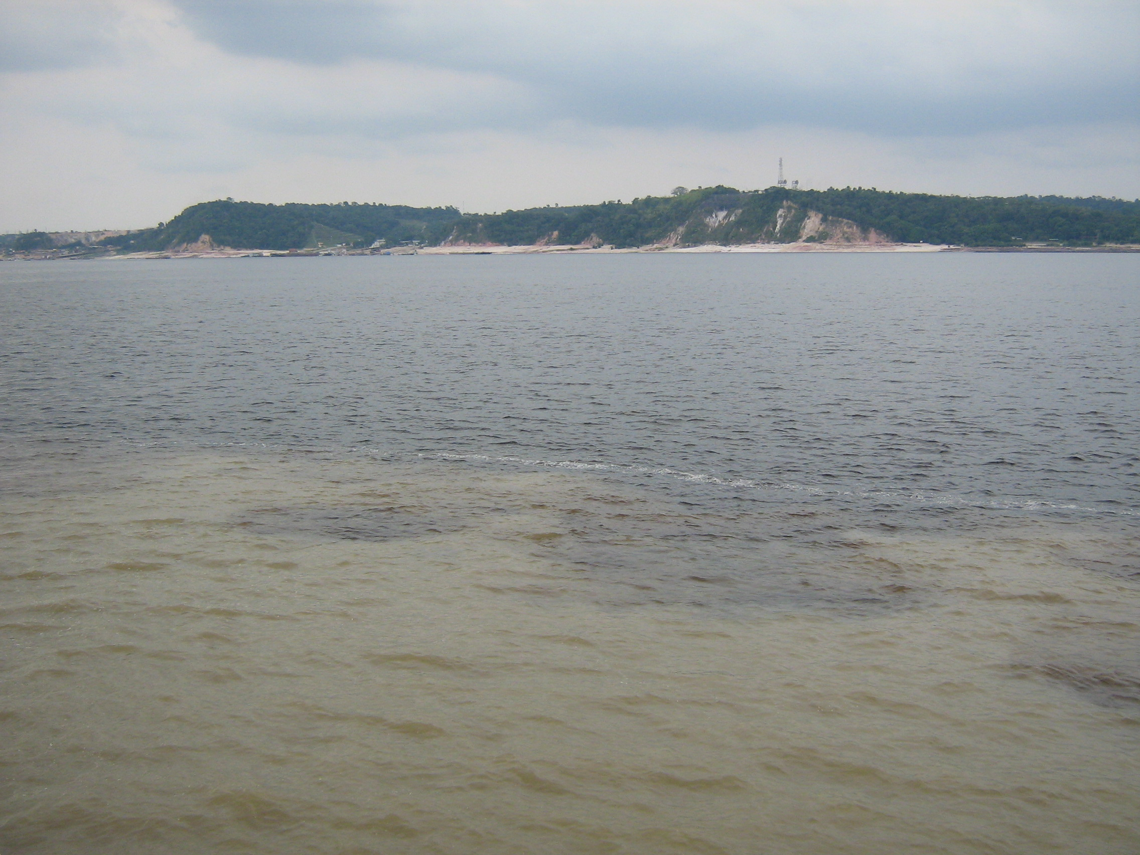 Amazonas River, Encontre das Aguas (meeting of the waters) near Manaus, Brazil: The waters of Rio Solimões (muddy brown; front) and Rio Negro (darker; back) form the Rio Amazonas, but do not really mix for many kilometres. Amazonas, Encontre das Aguas (Zusammentreffen der Wasser) bei Manaus (Brasilien): Rio Solimões (lehmig-braun, vorne) und Rio Negro (dunkler, hinten) fließen zusammen und bilden den Amazonas, doch ihre Wasser vermischen sich auf einer Strecke von etlichen Kilometern nahezu gar nicht.